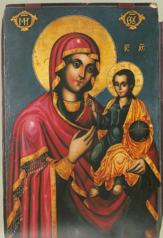 Sain Mary Icon by Toma Vishanov